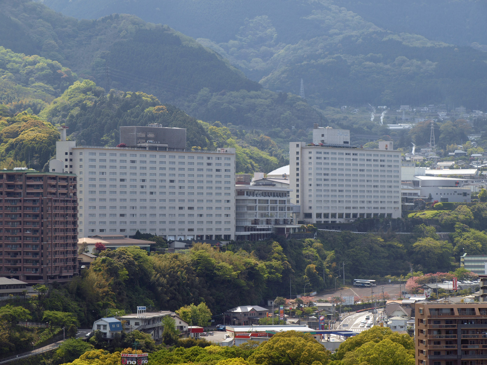 Suginoi Hotel, Beppu City, Oita Prefecture